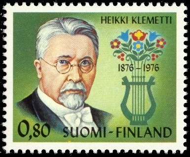 Postage stamp depicting Finnish composer Heikki Klemetti